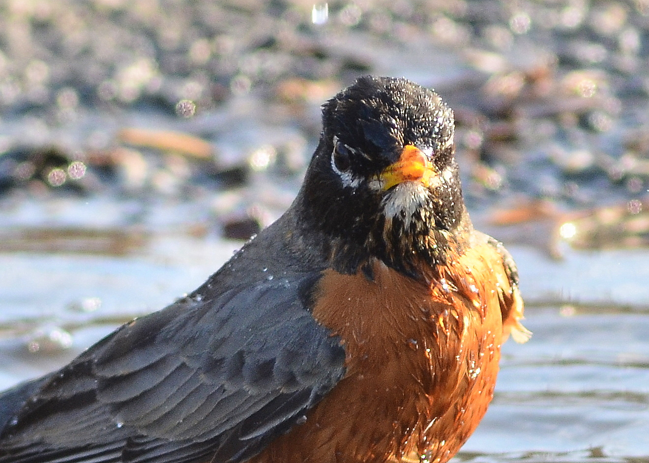 I'm taking a bath, leave me alone!